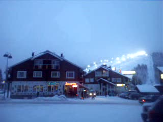 Levi. Levi ski center seen from the village Sirkka, Kittilä.